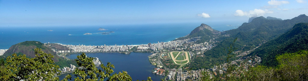 Panoramic view from Corcovado, Rio de Janeiro, Brazil.